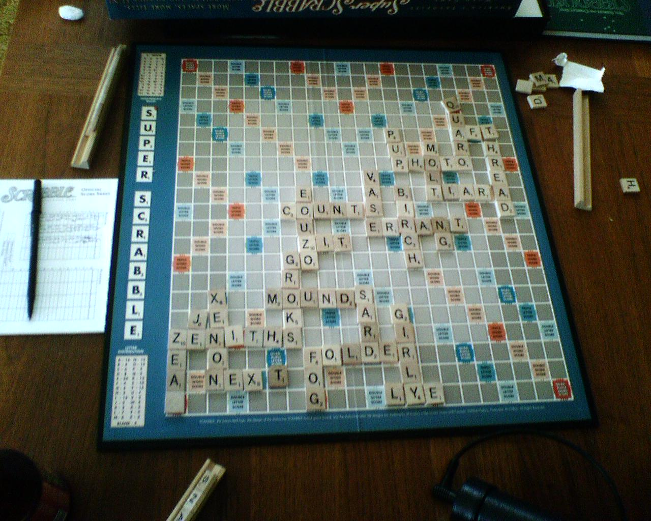 Andrew was on a roll here